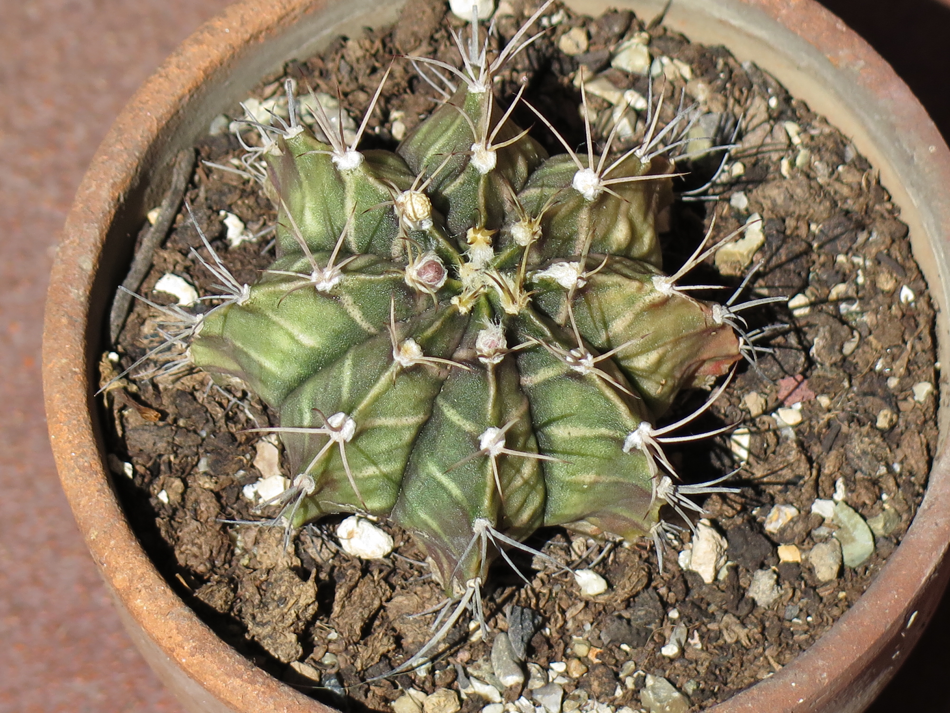 A young gymnocalycium mihanovichii